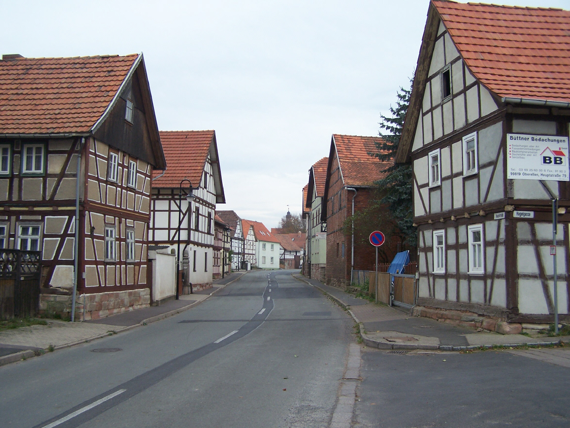 The main street in Oberellen village.